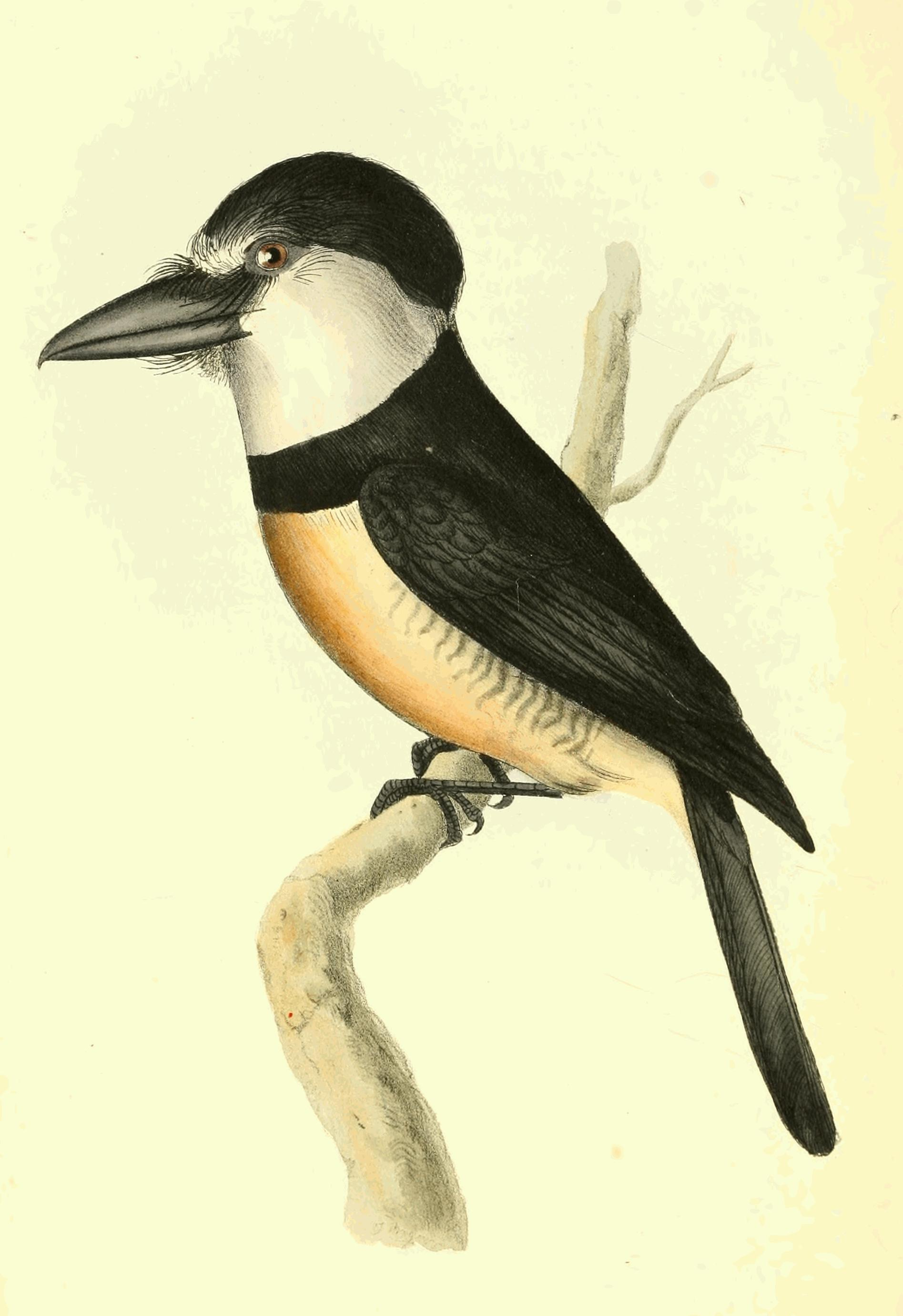 Plate 99. Tamatia macrorhynchos. Greater pied Puff-bird. Modern accepted name (2012) is Notharchus macrorhynchos[1].